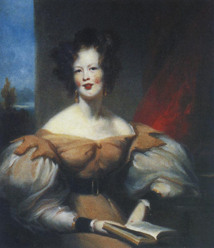 Harriet Low (1809–1877).